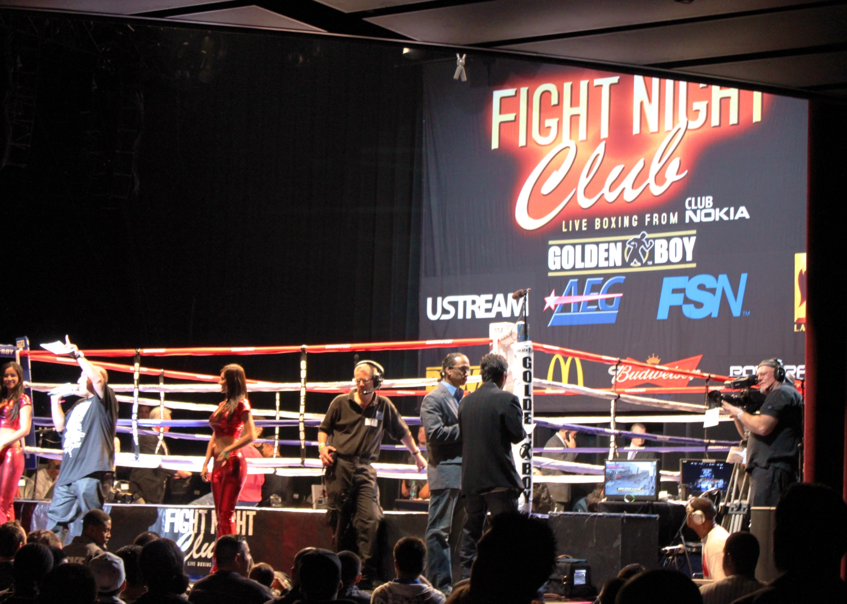 The Fight Night Club event at the Club Nokia in Los Angeles, California, United States.